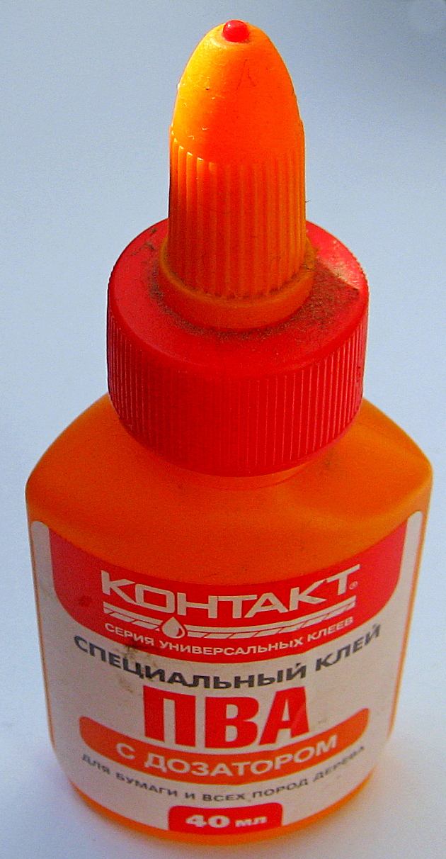 PVA glue